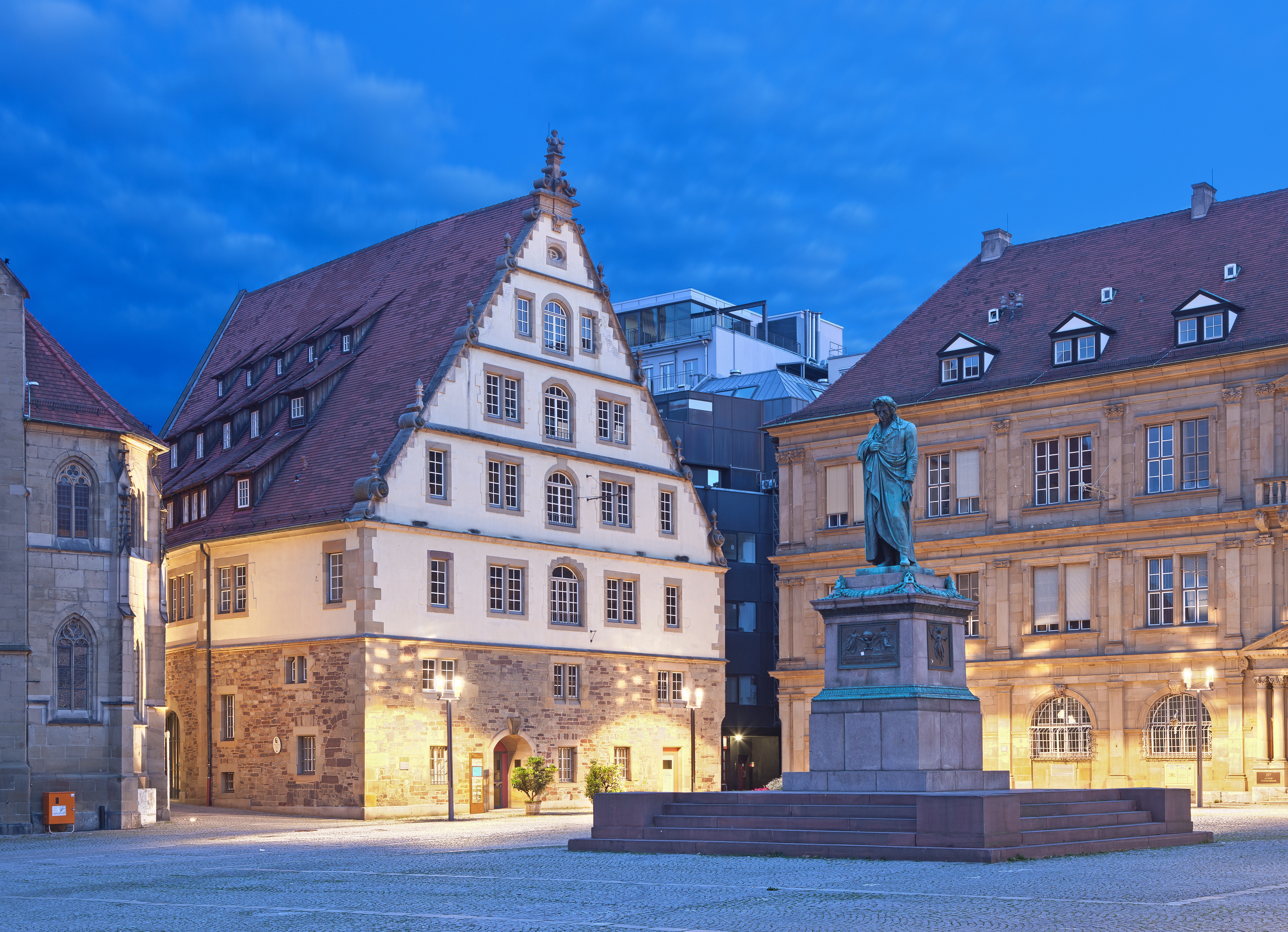 Schillerplatz in Stuttgart, Germany with Fruchtkasten and Schiller-memorial